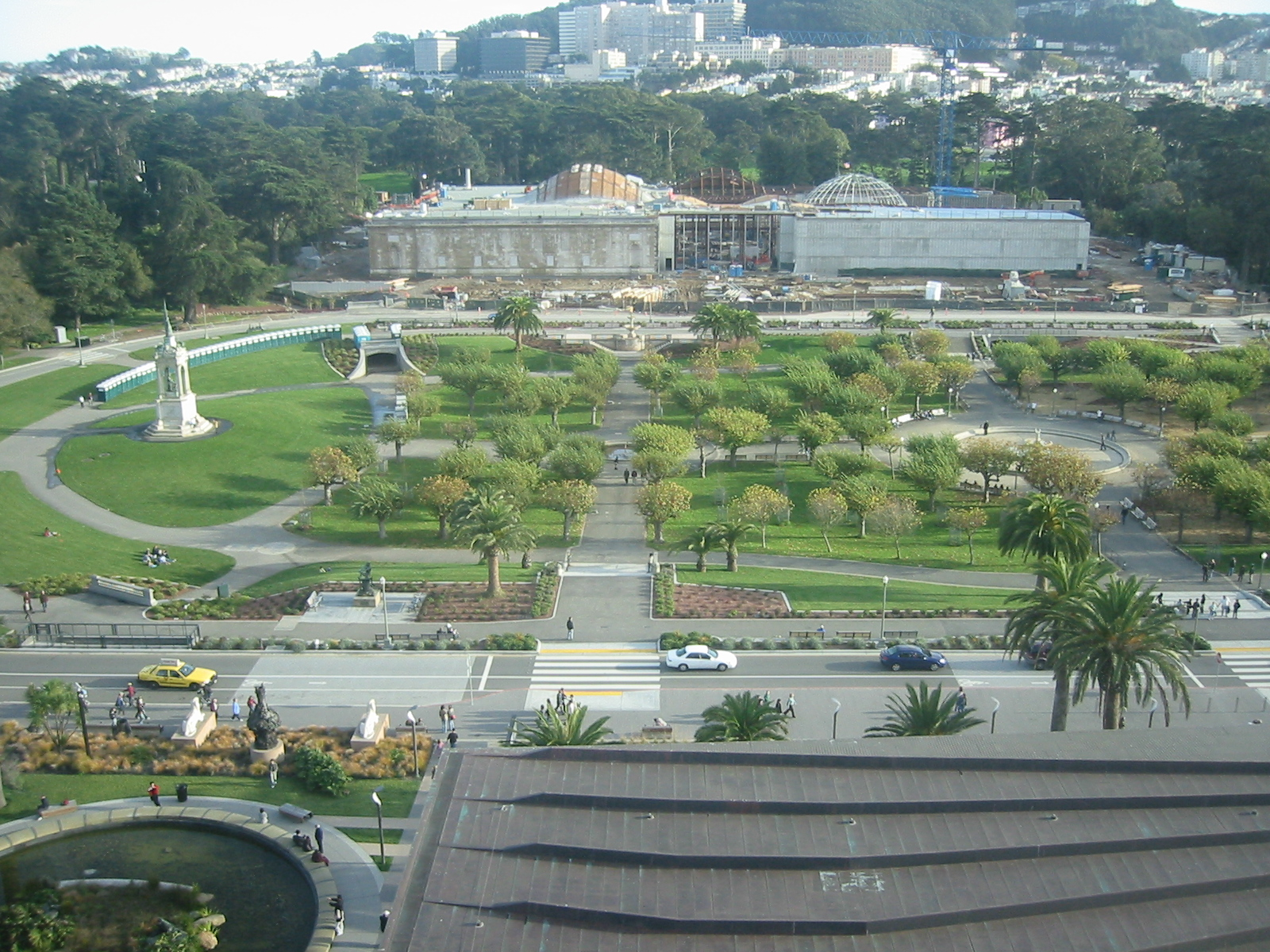 View of the new California Academy of Sciences from the observation tower of the M. H. de Young Memorial Museum, Golden Gate Park, San Francisco.